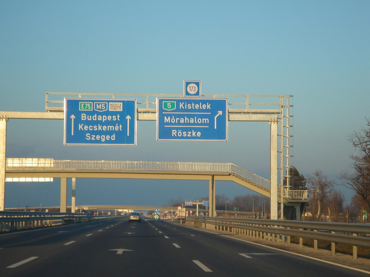 European route E-75 at Röszke, Hungarian border with Serbia.Sony Cyber-shot DSC-T7